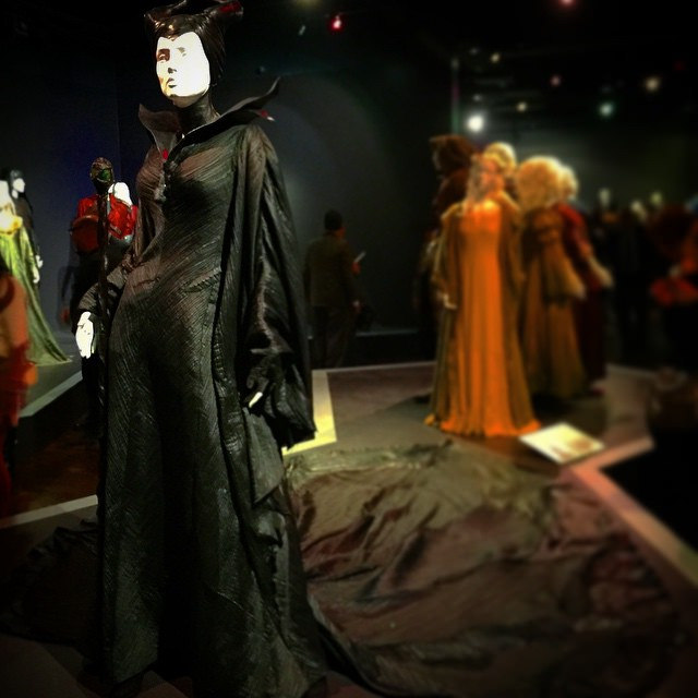 Angelina Jolie's costume from the film Maleficent displayed at the exhibition 24th Annual Art of Motion Picture Costume Design at FIDM Museum, Los Angeles, CA.